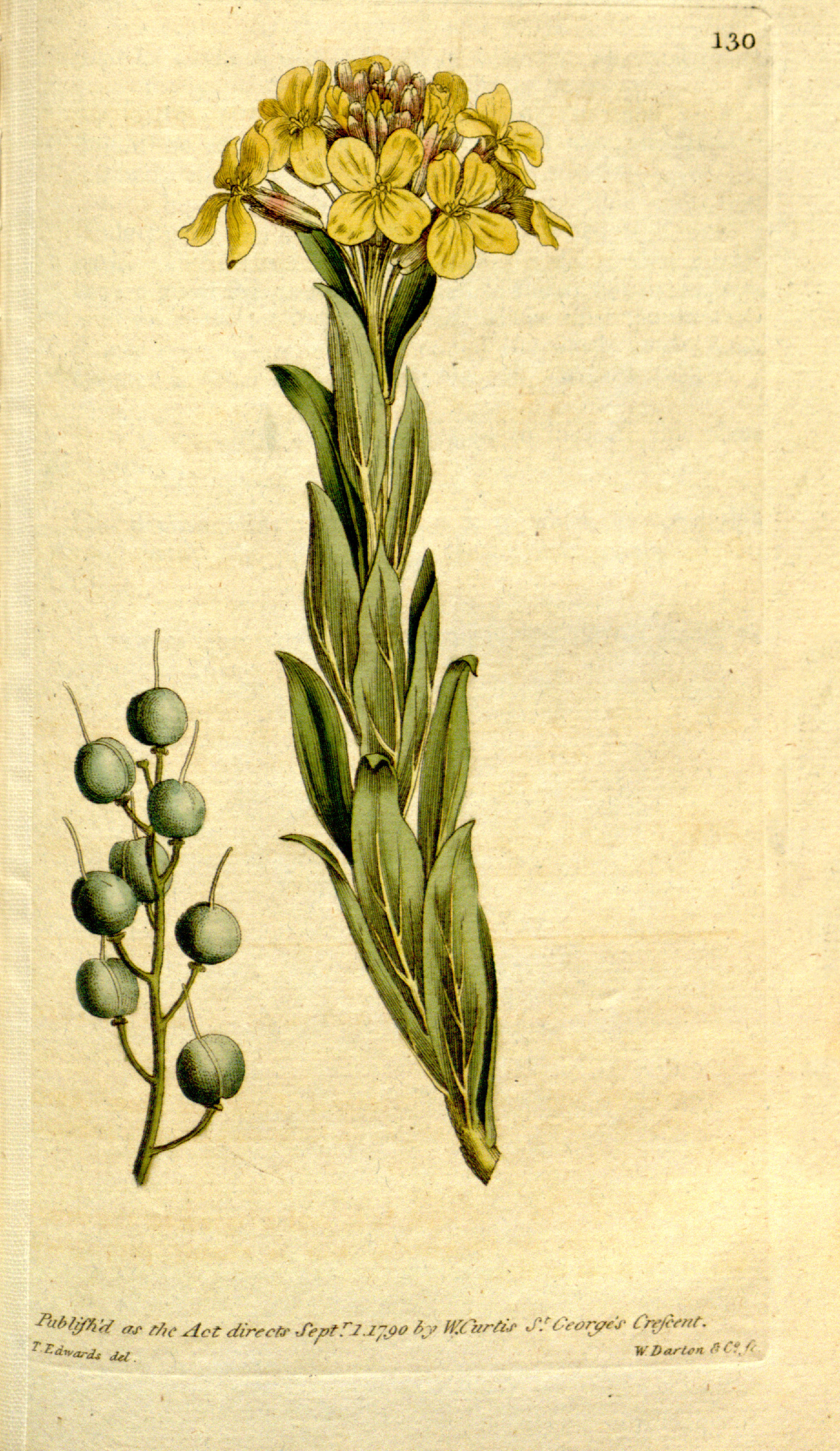 This is a plate from The Botanical Magazine, Volume 4.